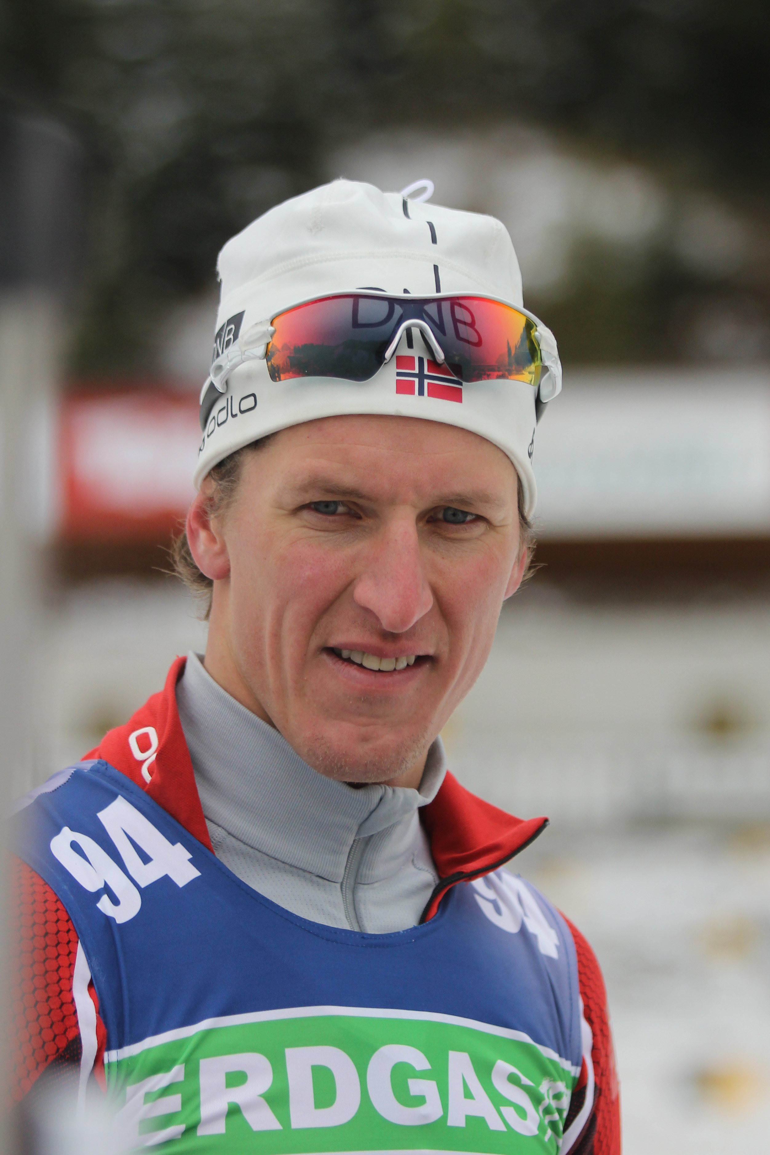 Lars Berger at Biathlon Hochfilzen 2011